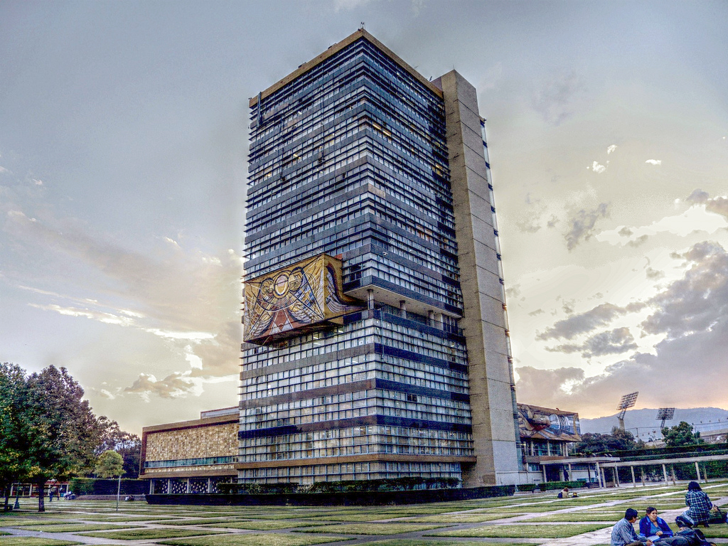 The Rectorate Tower of the National Autonomous University of Mexico.